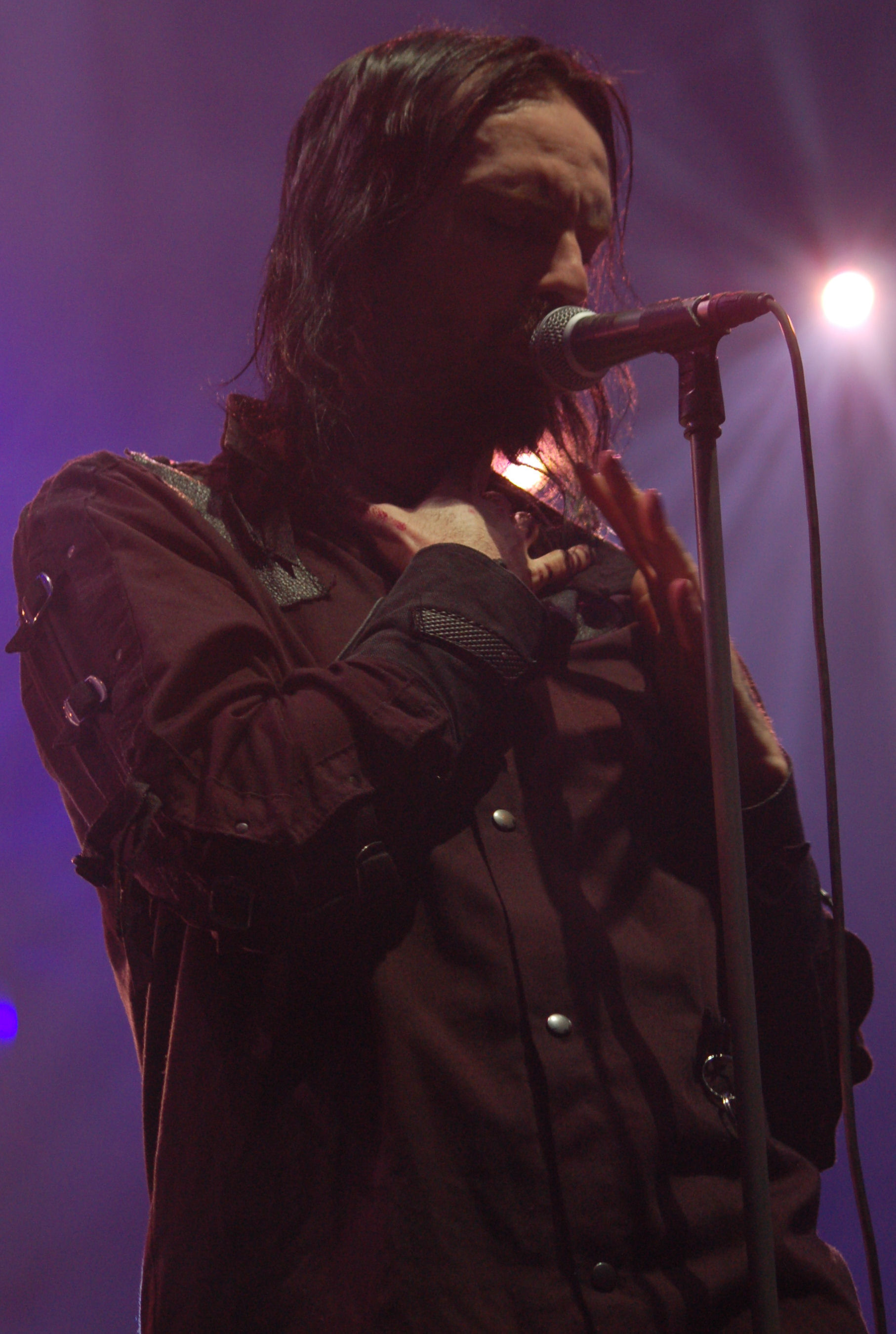 Aaron Stainthorpe from My Dying Bride during Metalmania 2007 festival